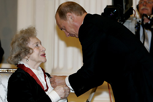 Moscow, the Kremlin. Moscow, the Kremlin. With Olga Lepeshinska.